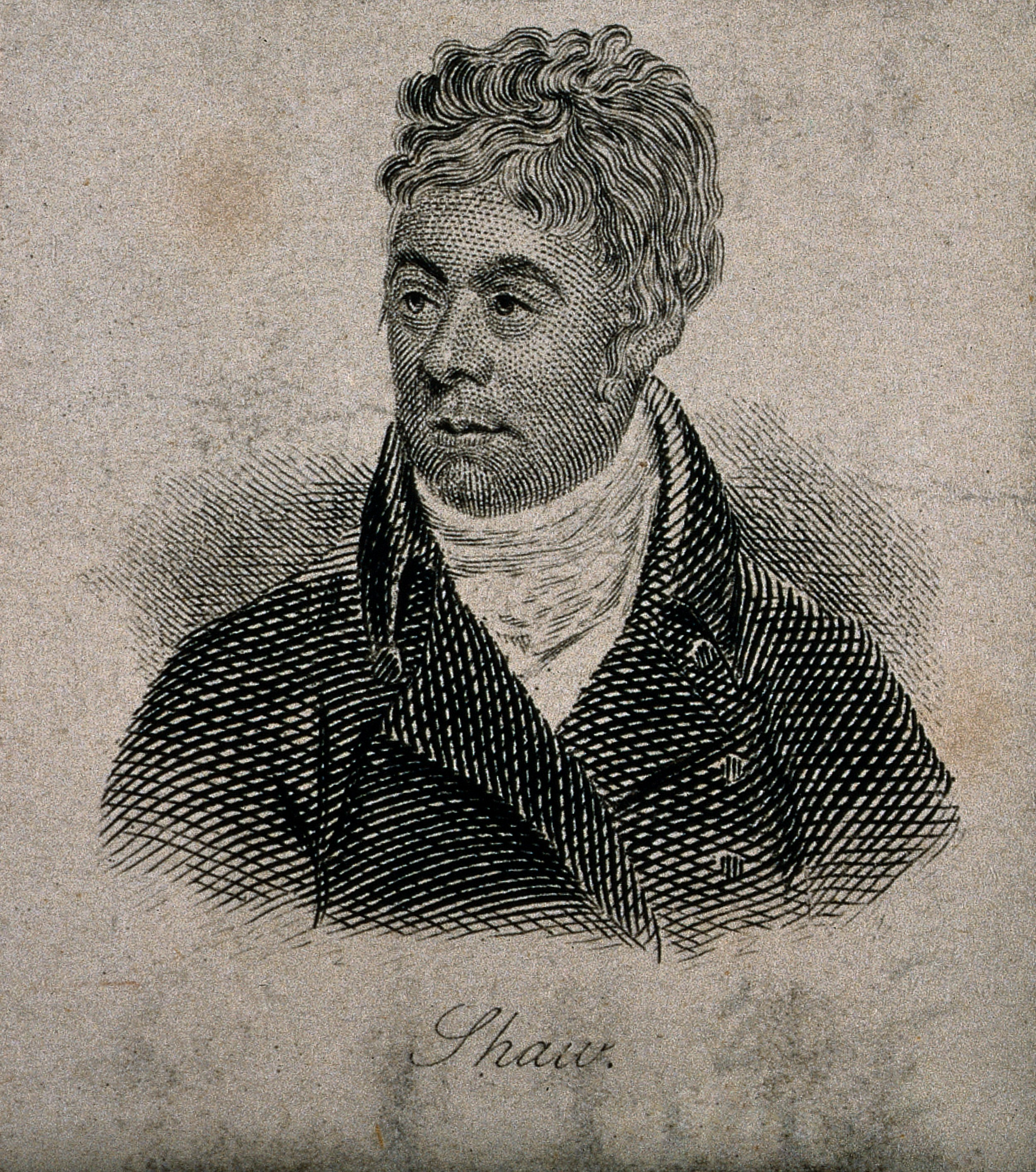 George Shaw. Line engraving after J. Russell. Iconographic Collections Keywords: portrait prints; engravings; George Shaw